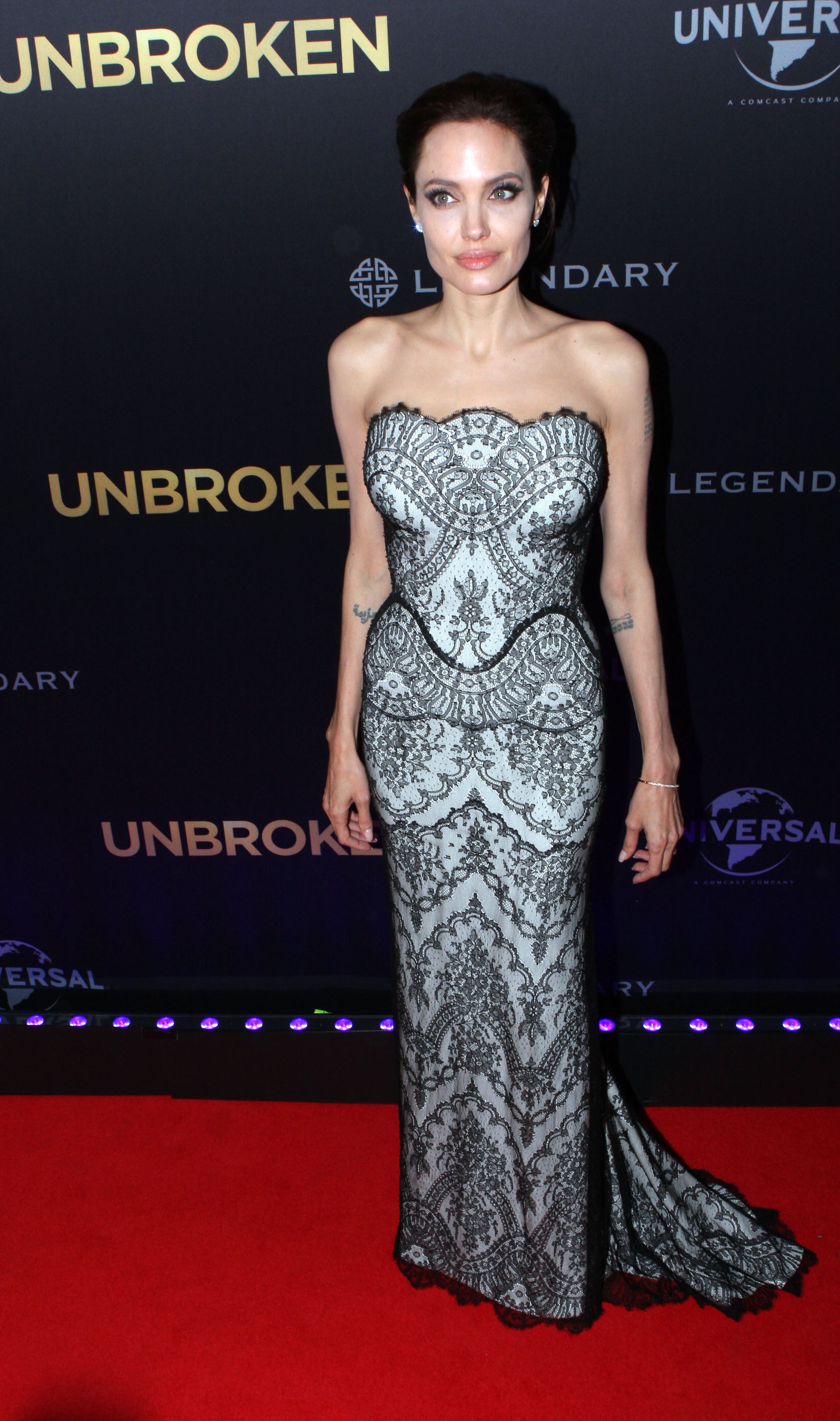 Unbroken World Premiere